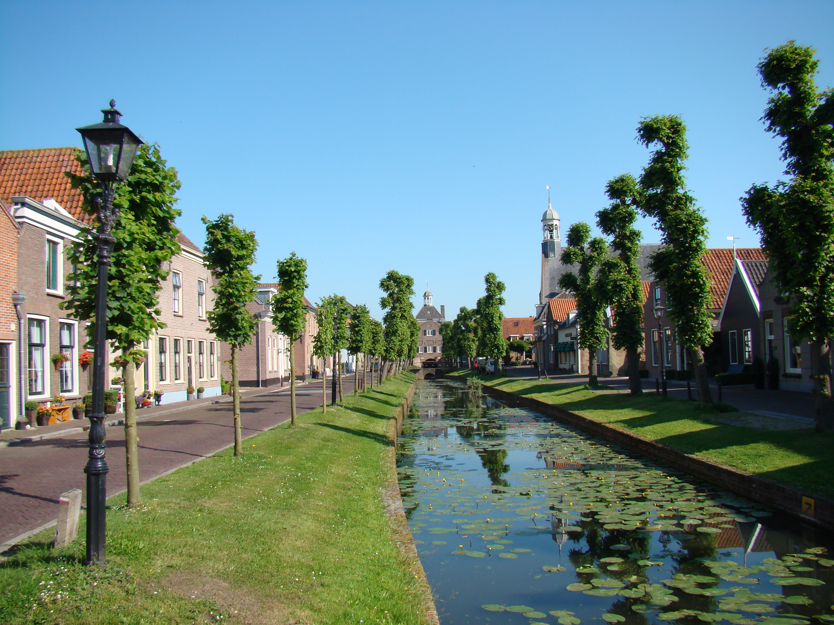 Cityharbour Nieuwpoort, Netherlands